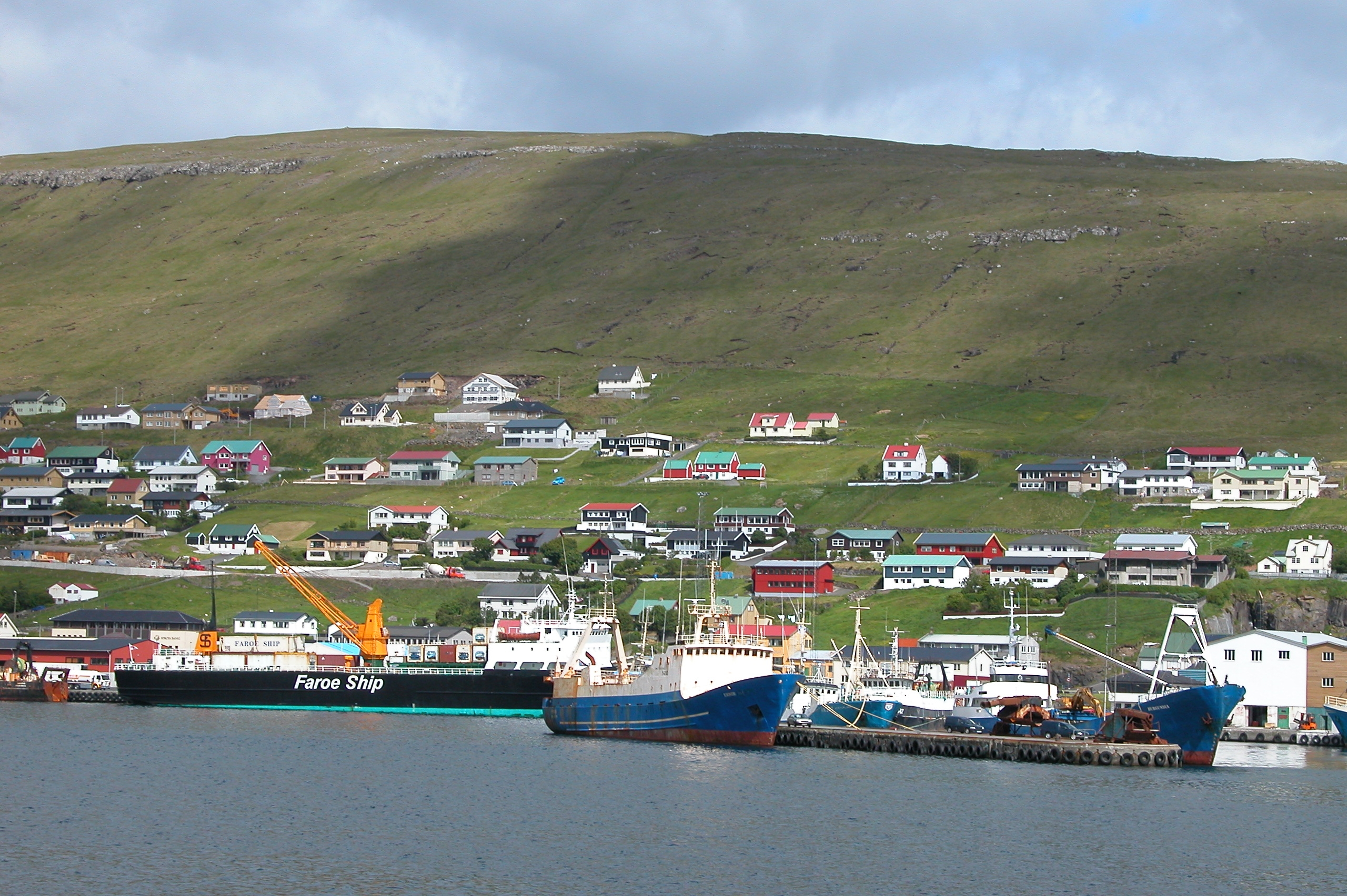 Harbour of Runavík at the Skálafjørður in Eysturoy, Faroe Islands